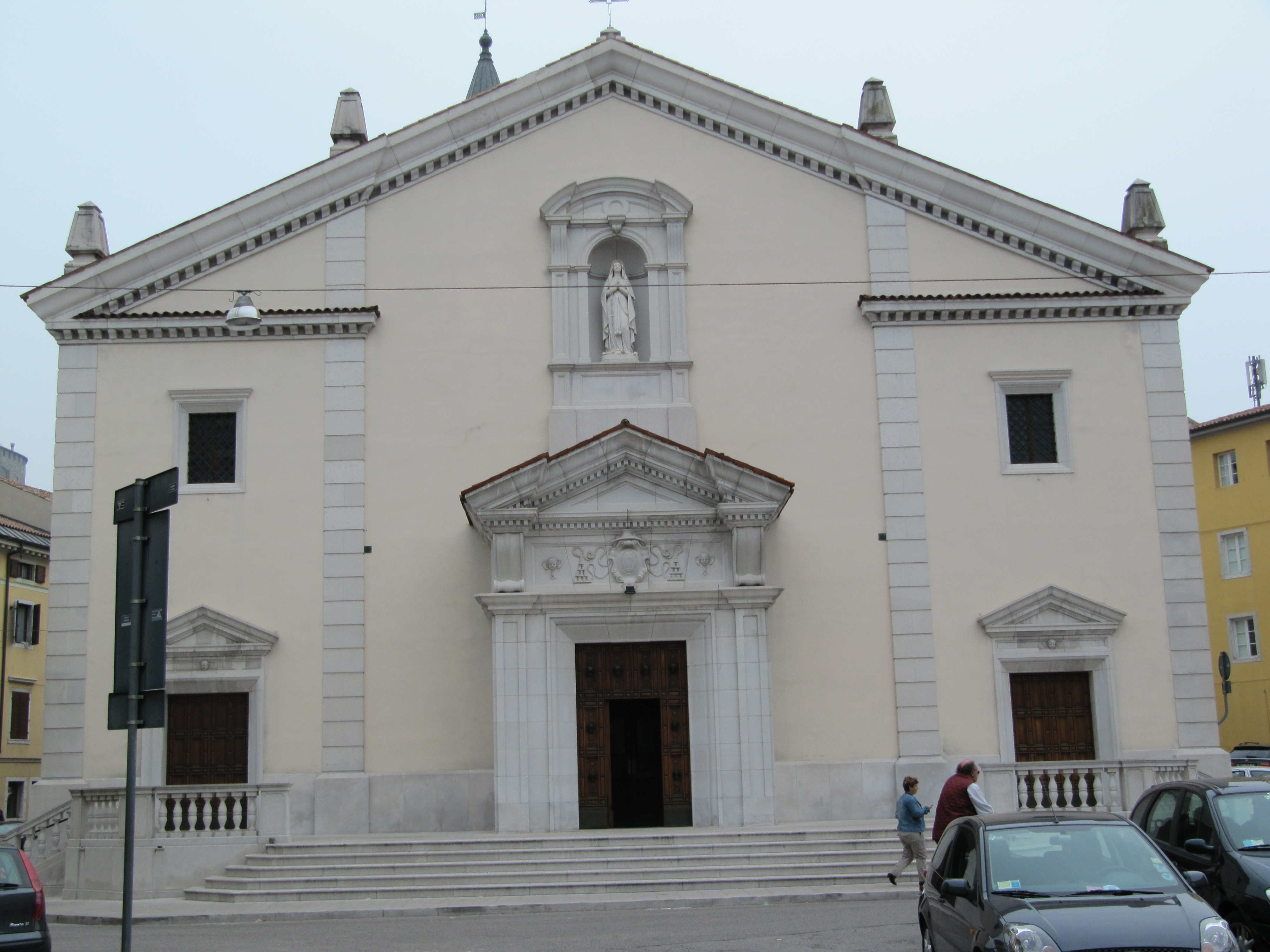 the Duomo of Gorizia